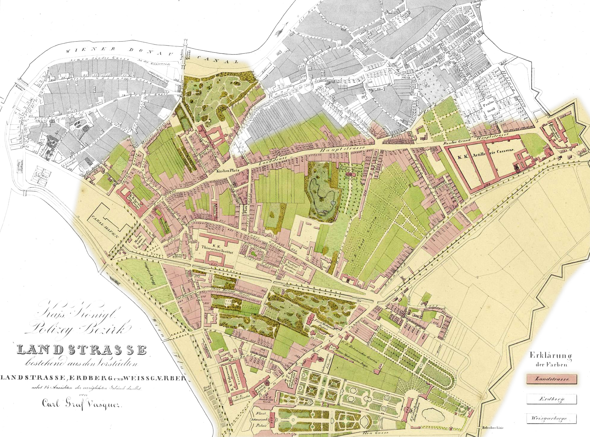 Map of Vienna / Landstraße, approx. 1830